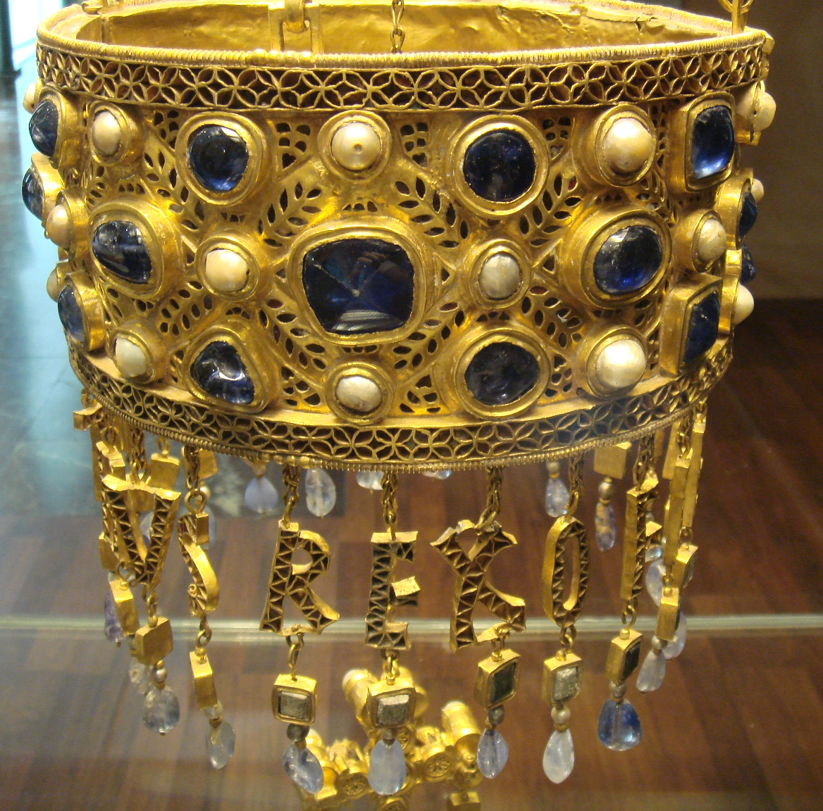 Detail of the votive crown of Visigoth king Reccesuinth († 672). Made of gold and precious stones in the 2nd half of the 7th century. It's part of the so-called Treasure of Guarrazar.